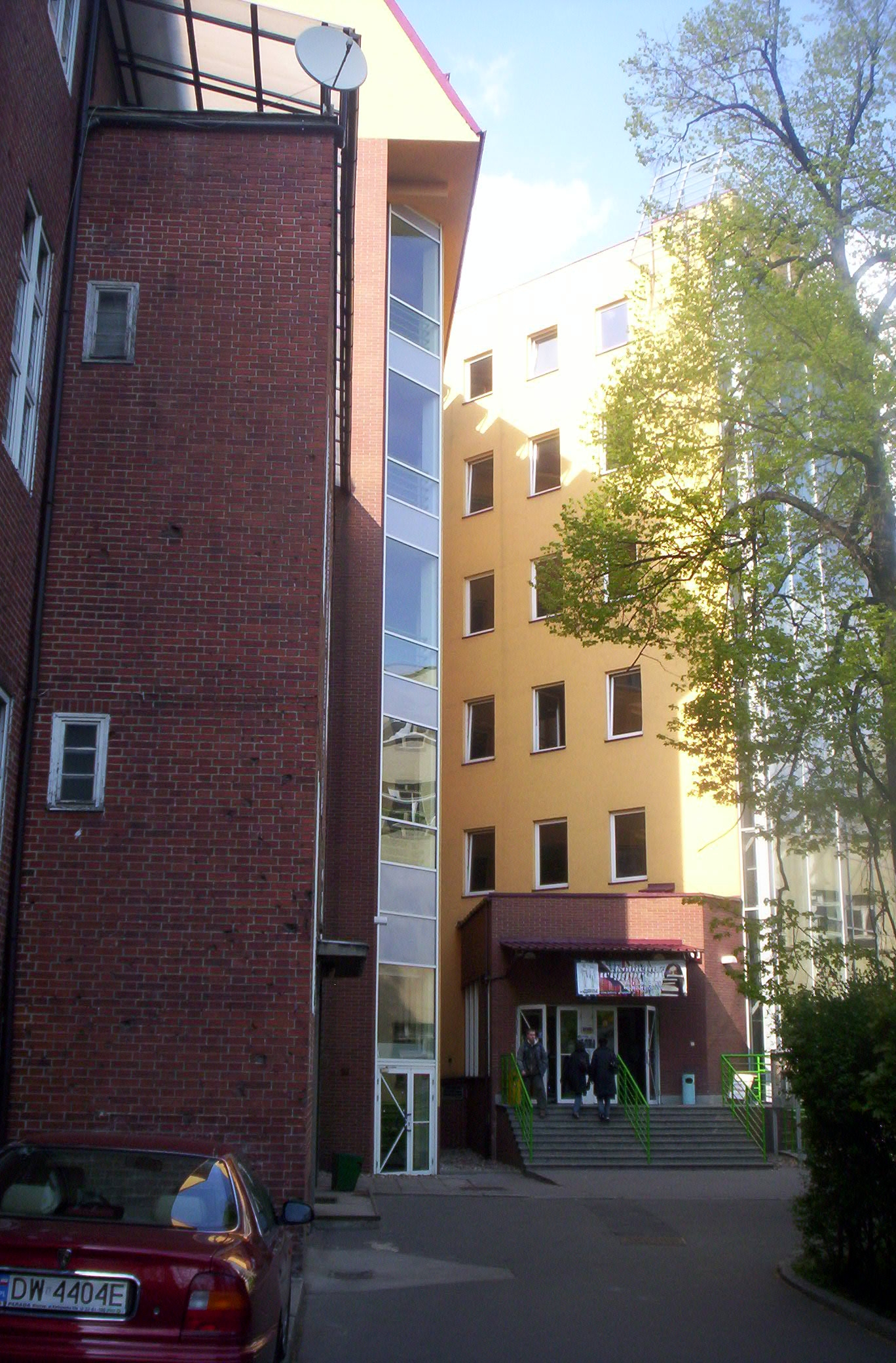 Wrocław University of Economics. Picture taken on April 28, 2005 by Paweł Dembowski.